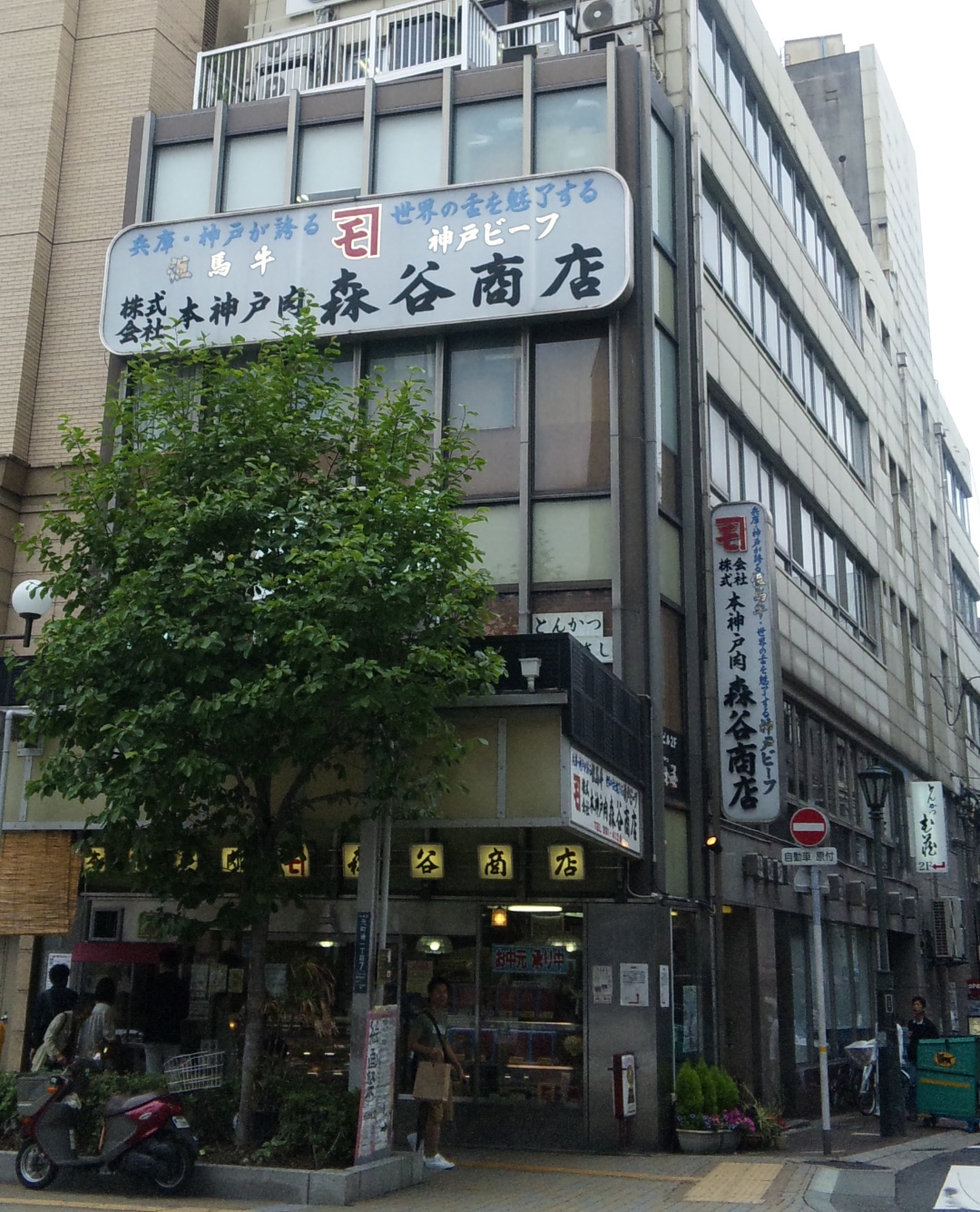 Moriya-shoten